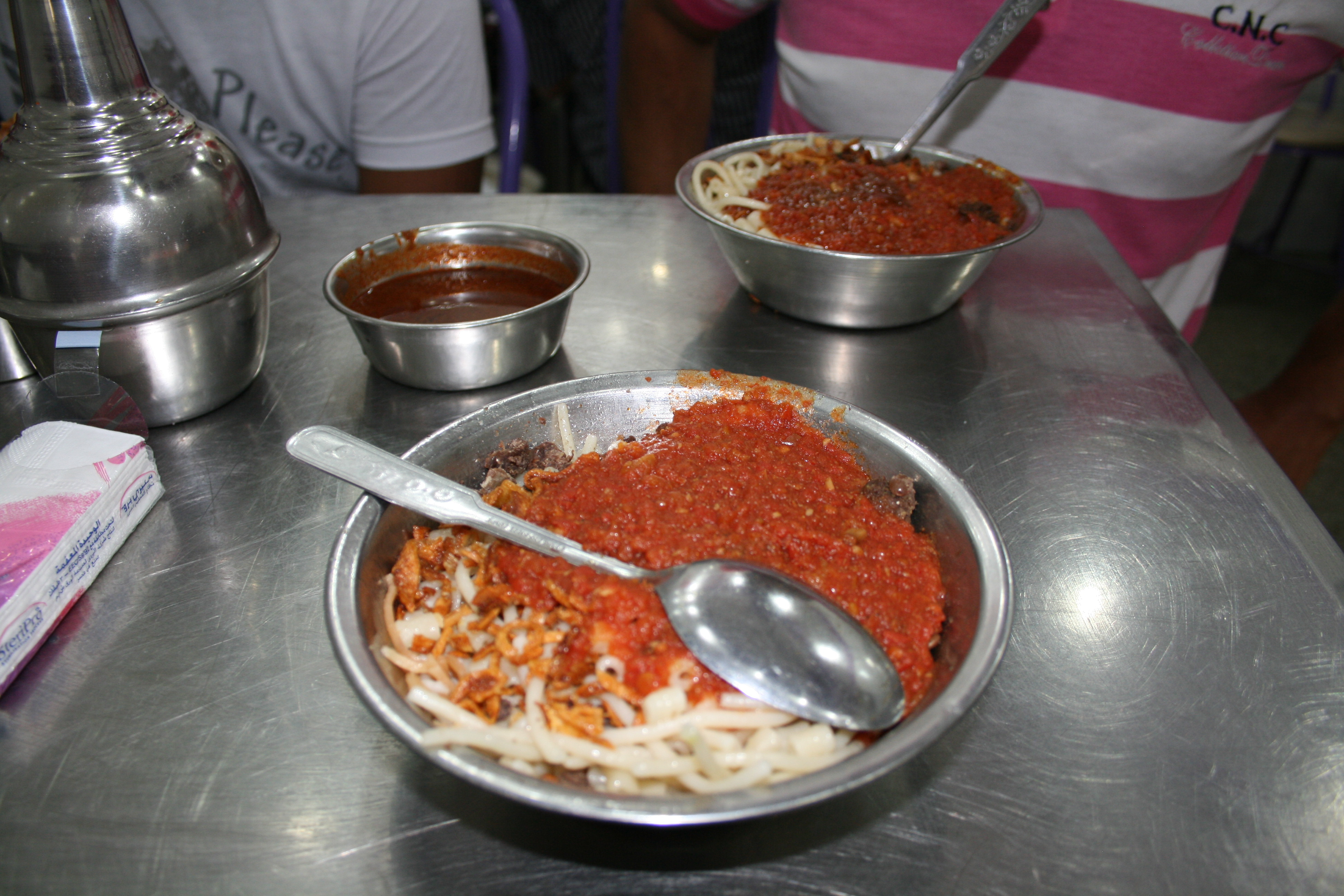 Koshary in a restaurant in Cairo